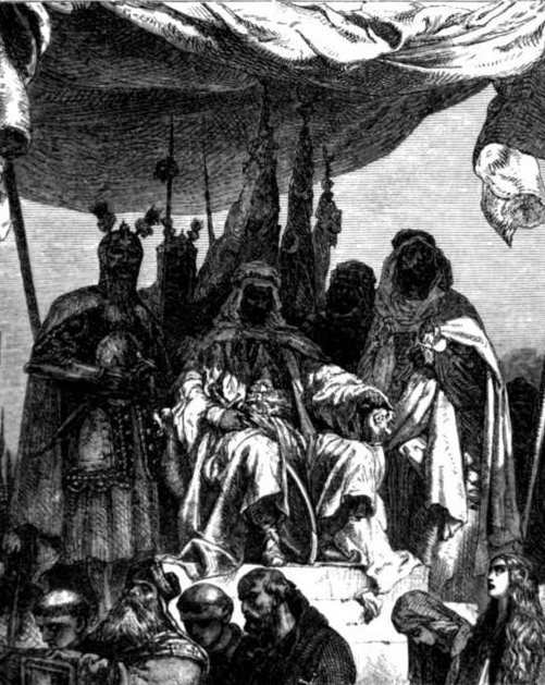 Crusaders and Christians before Saladin